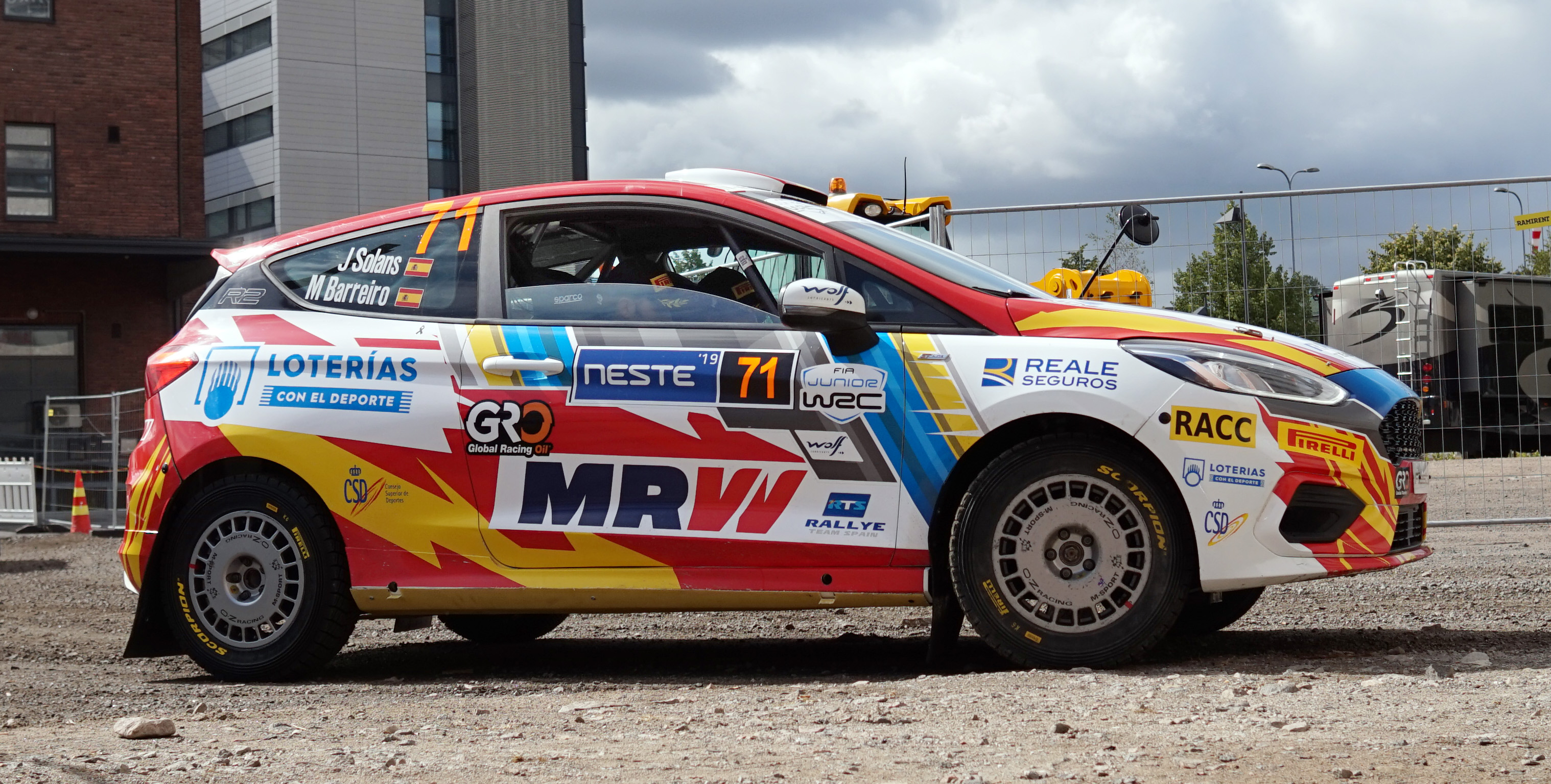 Ford Fiesta R2 (Jan Solans, Mauro Barreriro) during Neste Rally Finland in 3rd August 2019. Lutakko, Jyväskylä, Finland.